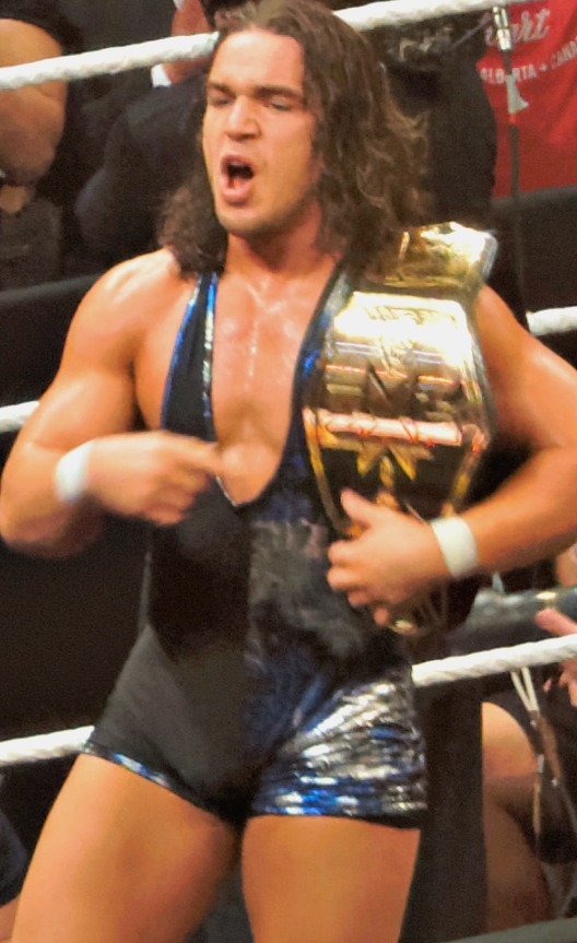 Chad Gable as WWE NXT Tag Team Champion during the NXT Takeover Dallas event in April 1, 2016.